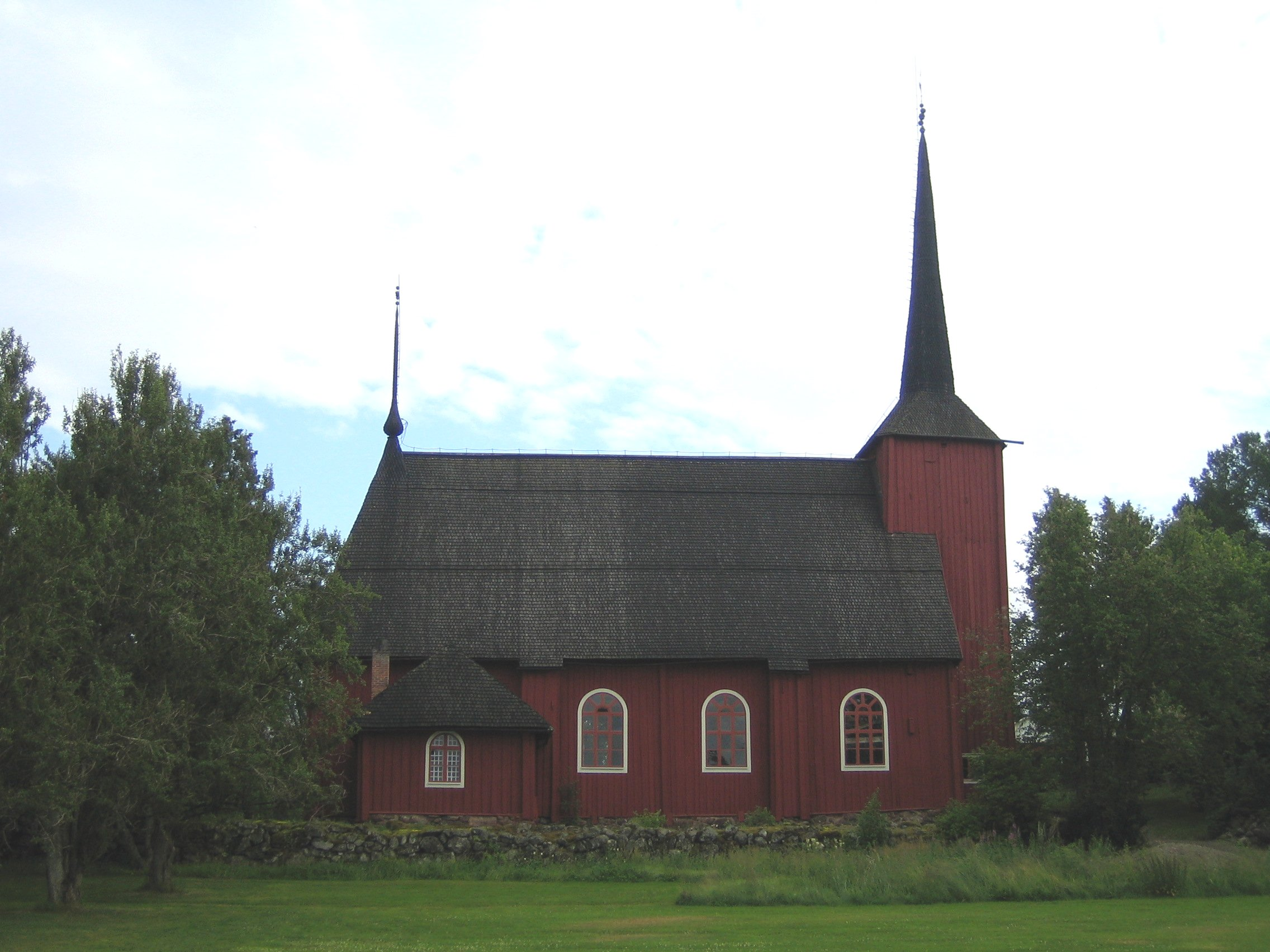 Ulrika Eleonora Church, Kristinestad, Finland